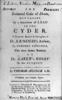 The endemial colic of Devonshire not caused by a solution of lead in the cyder, by Thomas Alcock. Alcock was a cleric and a cider maker who wished to rebutt the claims of Baker that the Devon colic was caused by lead poisoning from drinking cider.